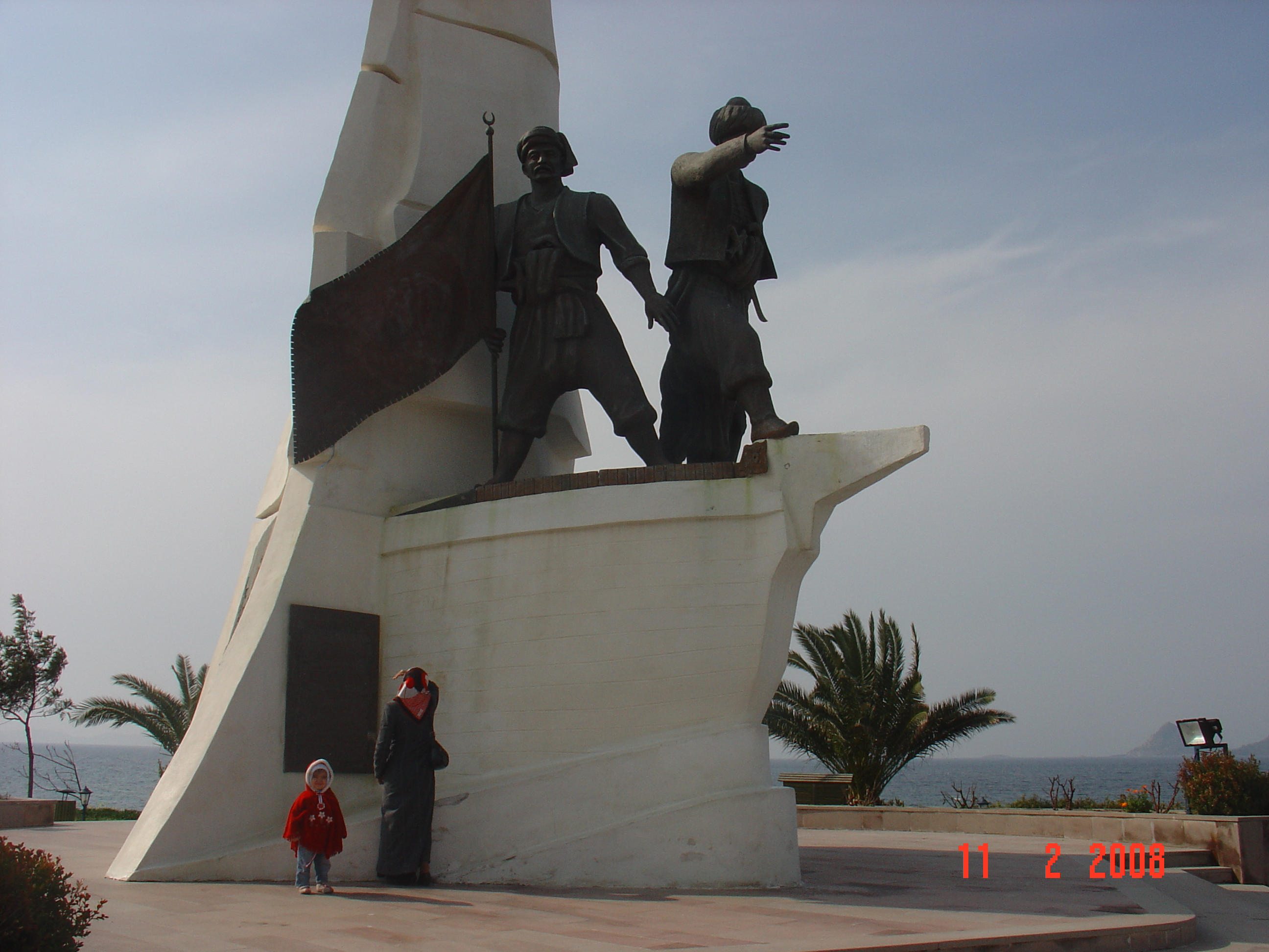 The Monument Of The Admiral Turgut (Dragut) Reis in Bodrum, Turkiye